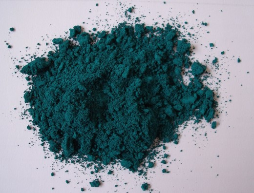 Pigment Blue 36 greenish